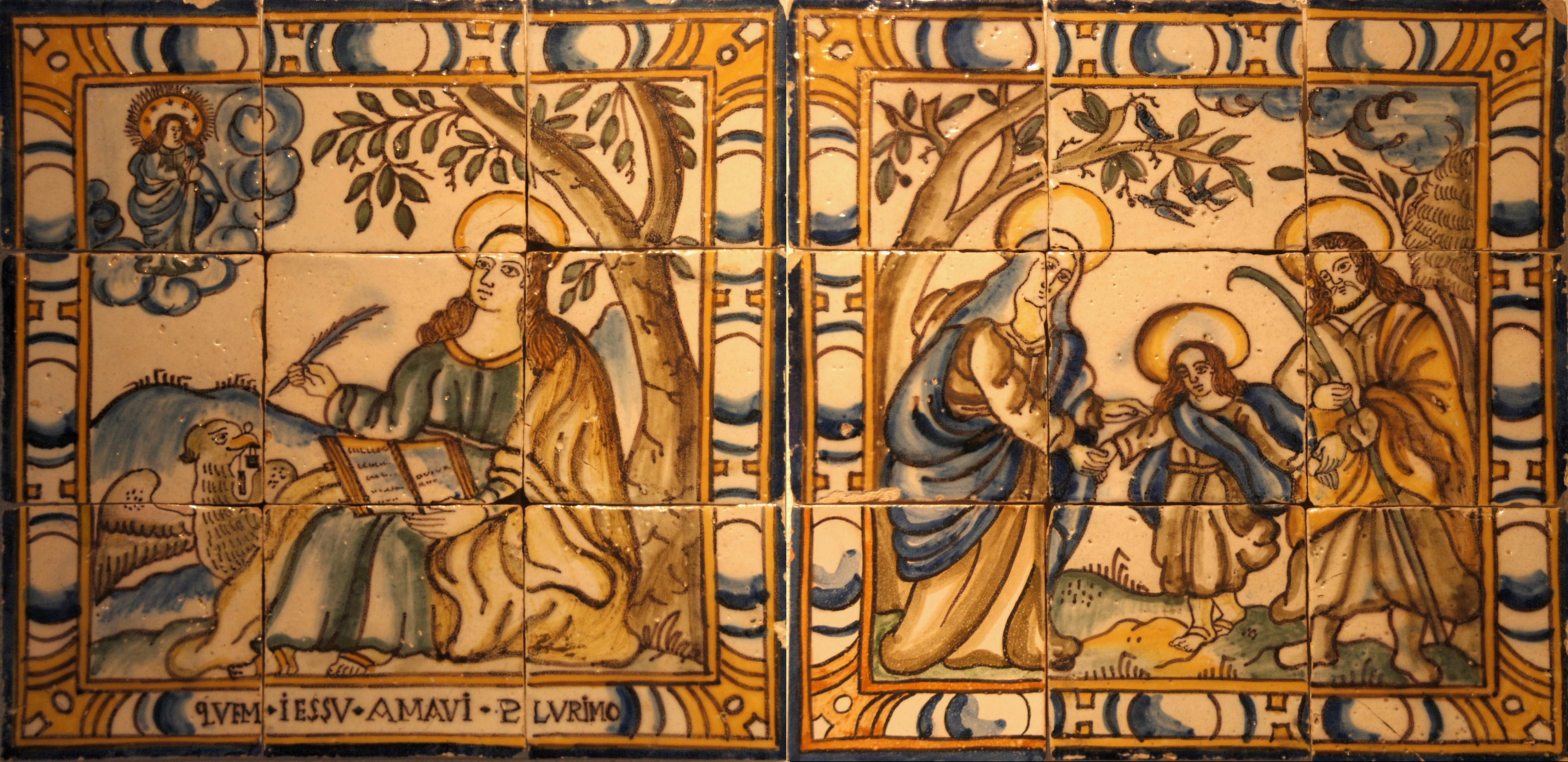 Figurative panels: St. John the vangelist and the Holy Family. Lisbon, first half of 17th century. Museu Nacional do Azulejo, Lisbon, Portugal